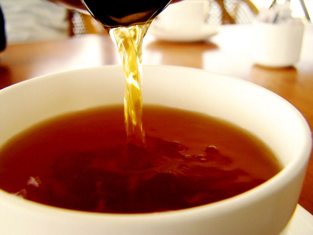 Black Tea.